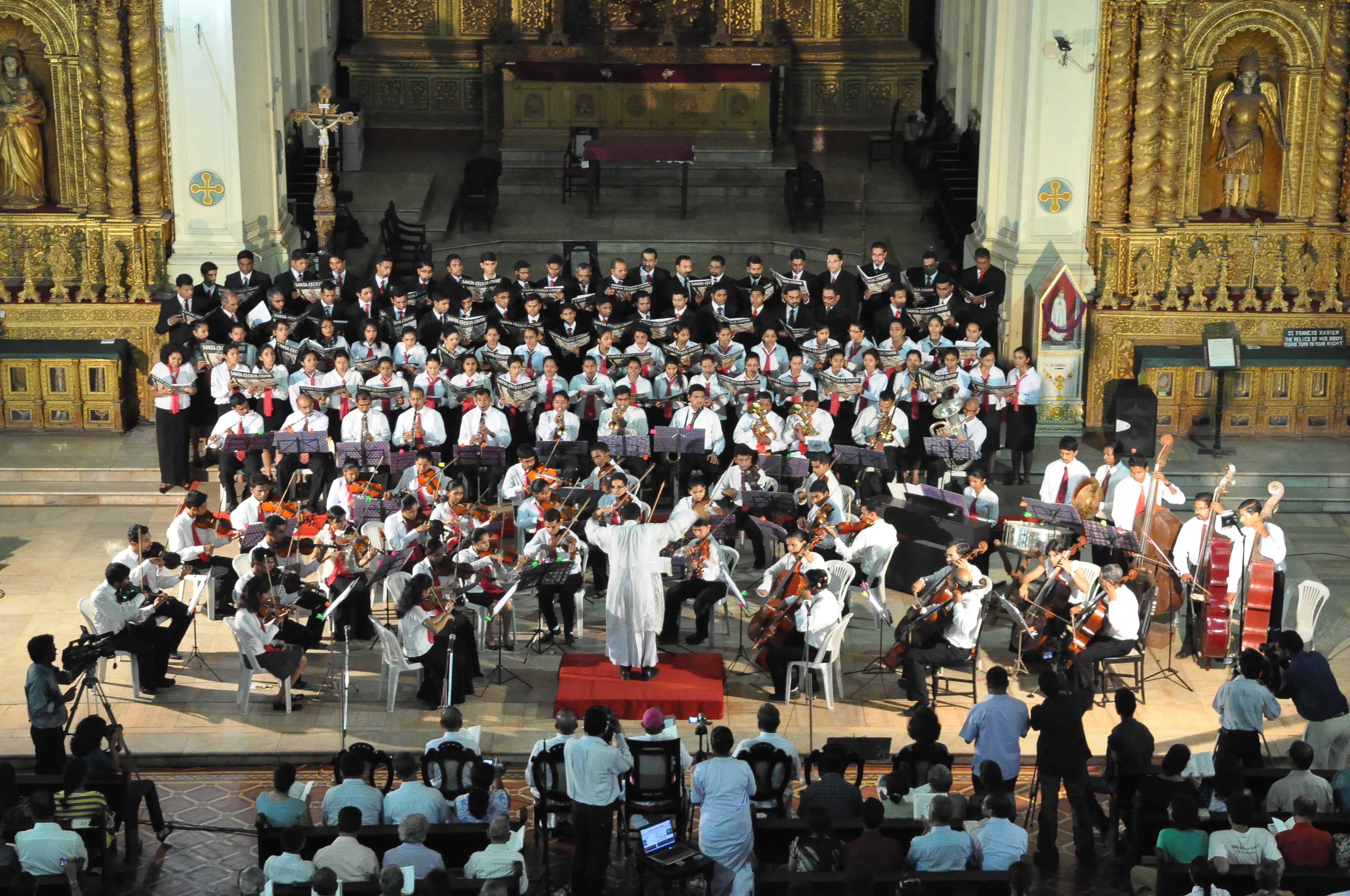 cent prog